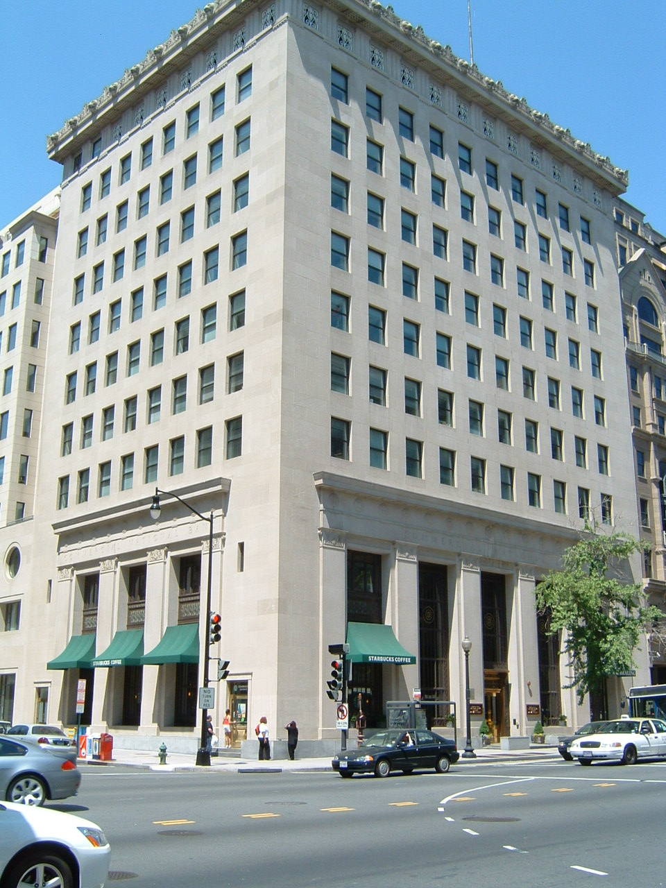 Photo of bank taken in May of 2006 Photo of bank taken in May of 2006